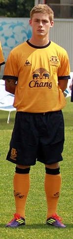 Conor McAleny with Everton FC